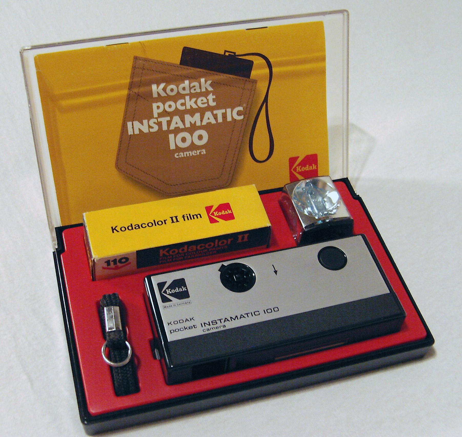 Kodak Pocket Instamatic 100, First camera for the 'Pocket Instamatic'-Film. Presented in this box on the 'Photokina' fair in Germany, 1972